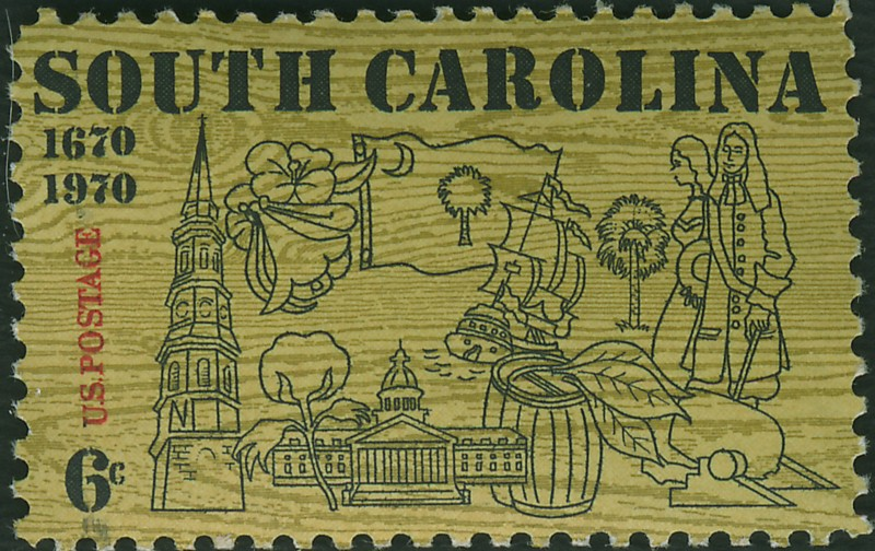 1970 6-cent stamp commemorating the tri-centenary of South Carolina